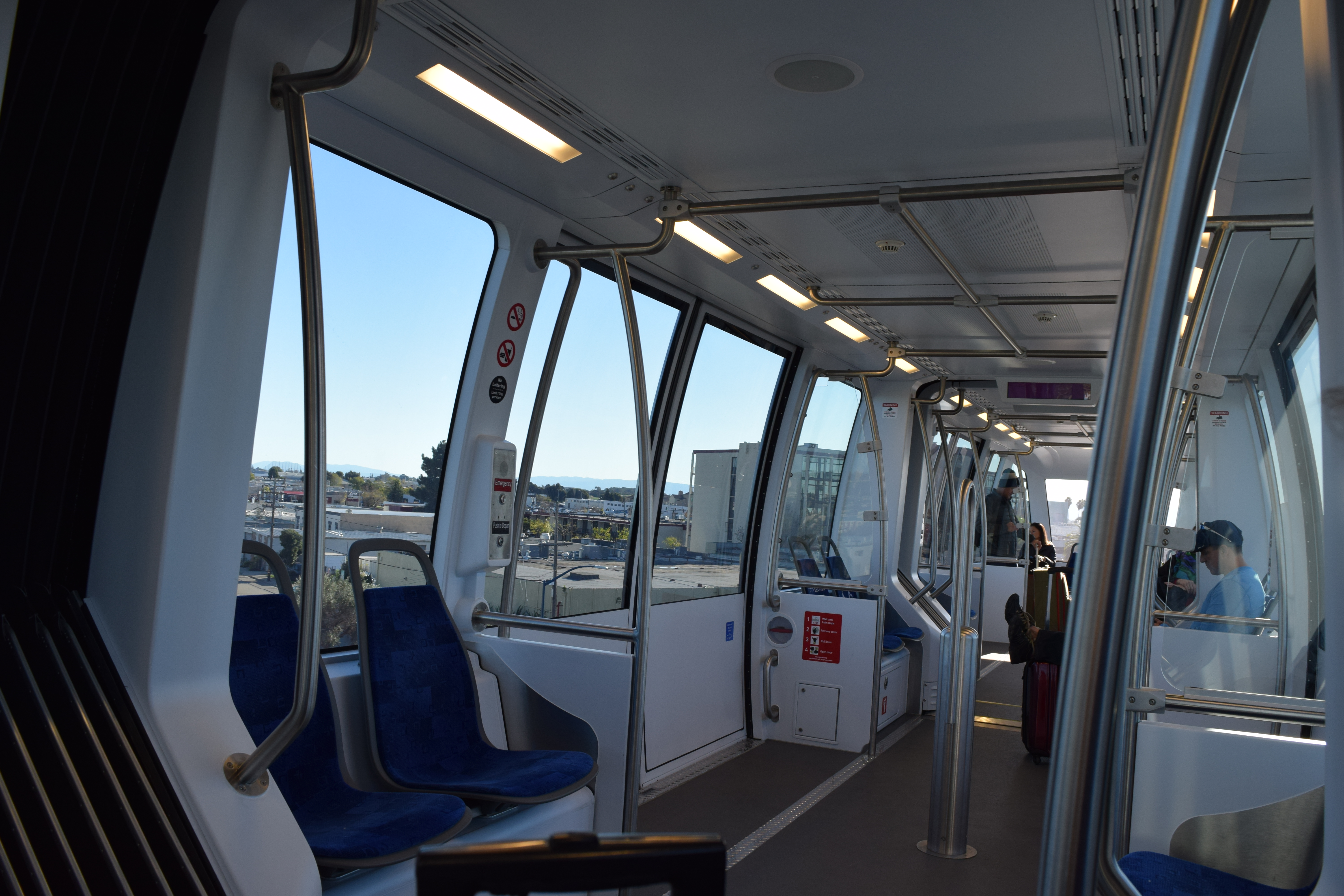 Interior of the tram.